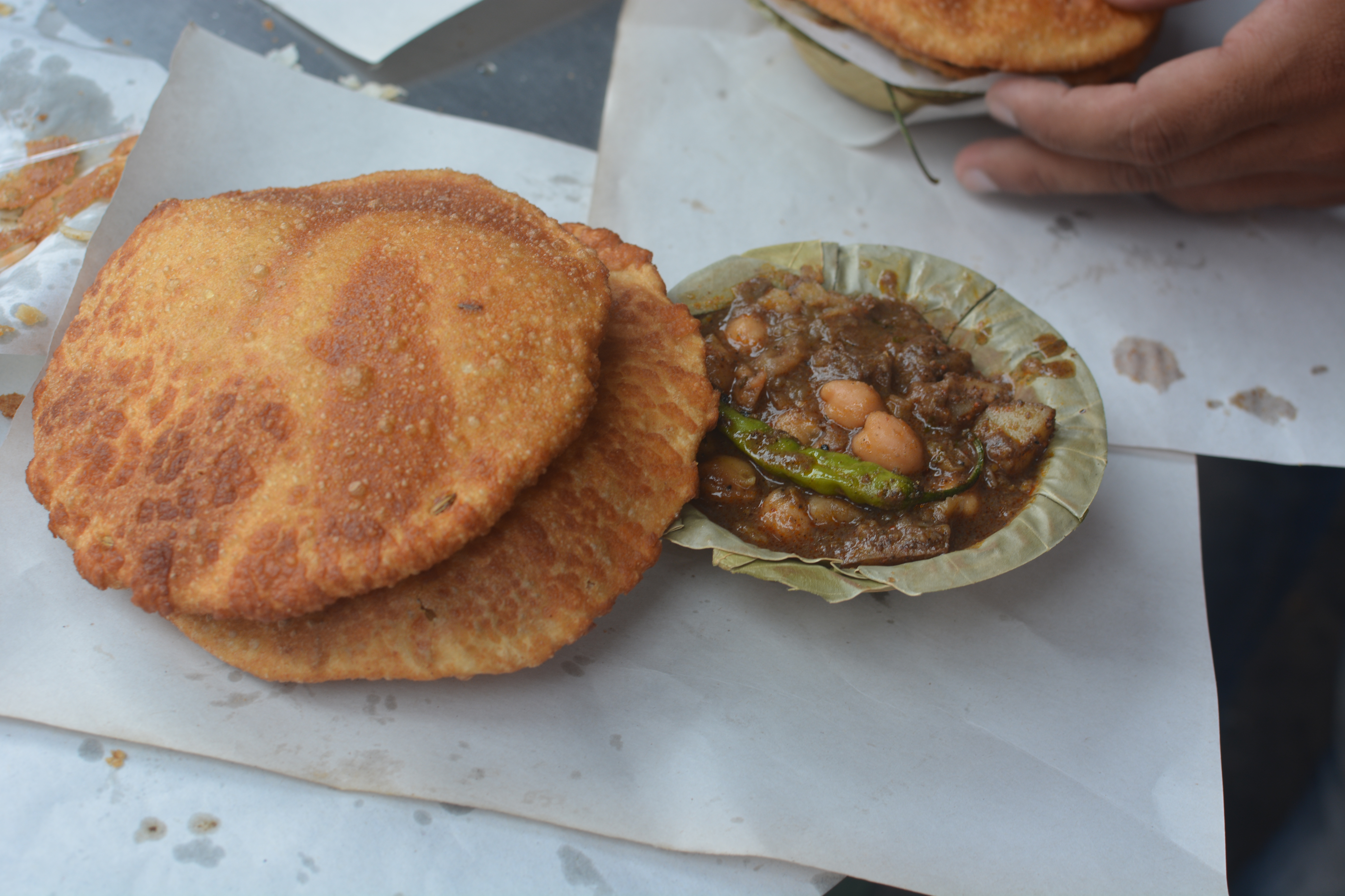 Kachori Sabji at Bajpayi Kachori Bhandar, Lucknow